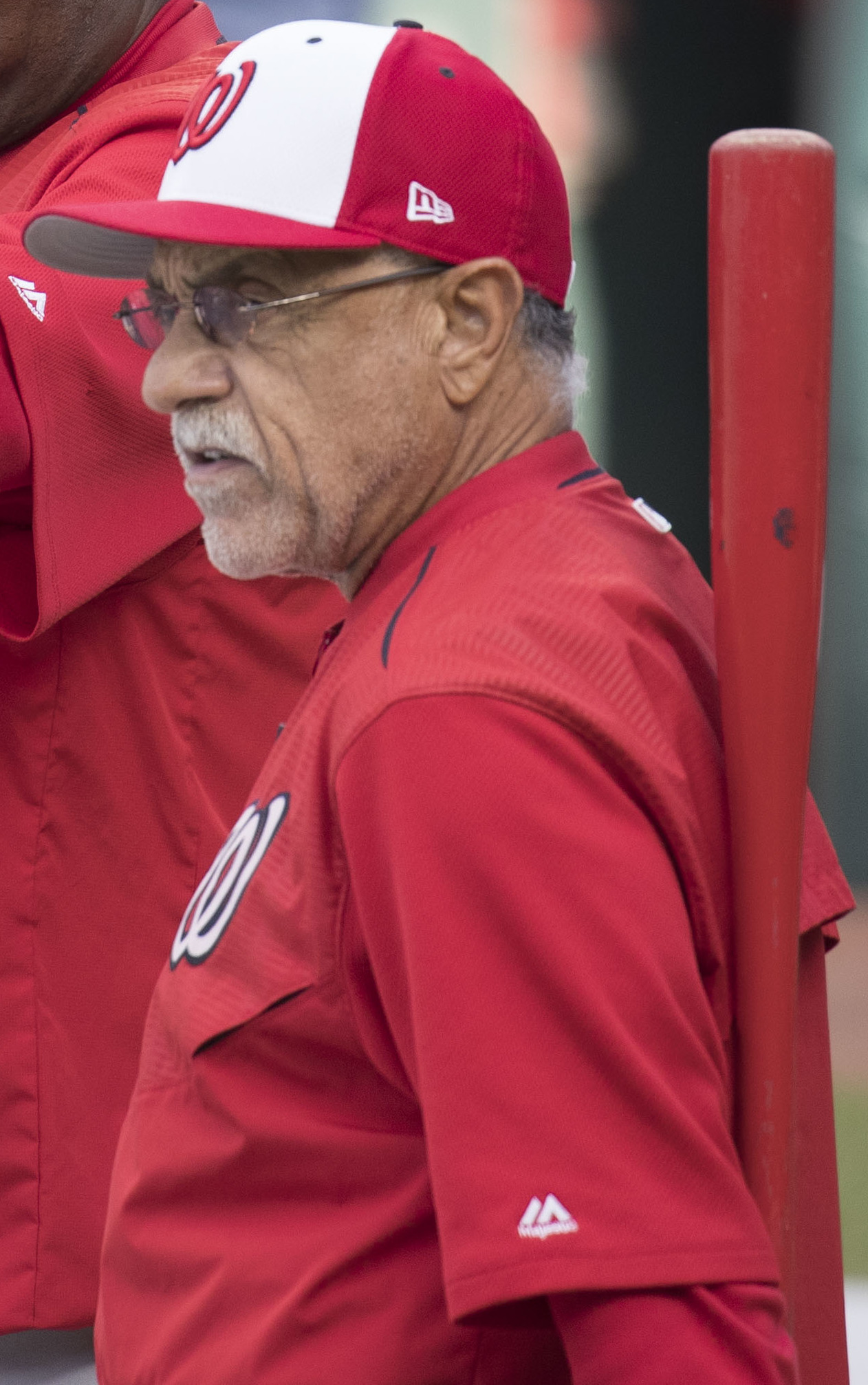 Nationals at Orioles 5/8/17